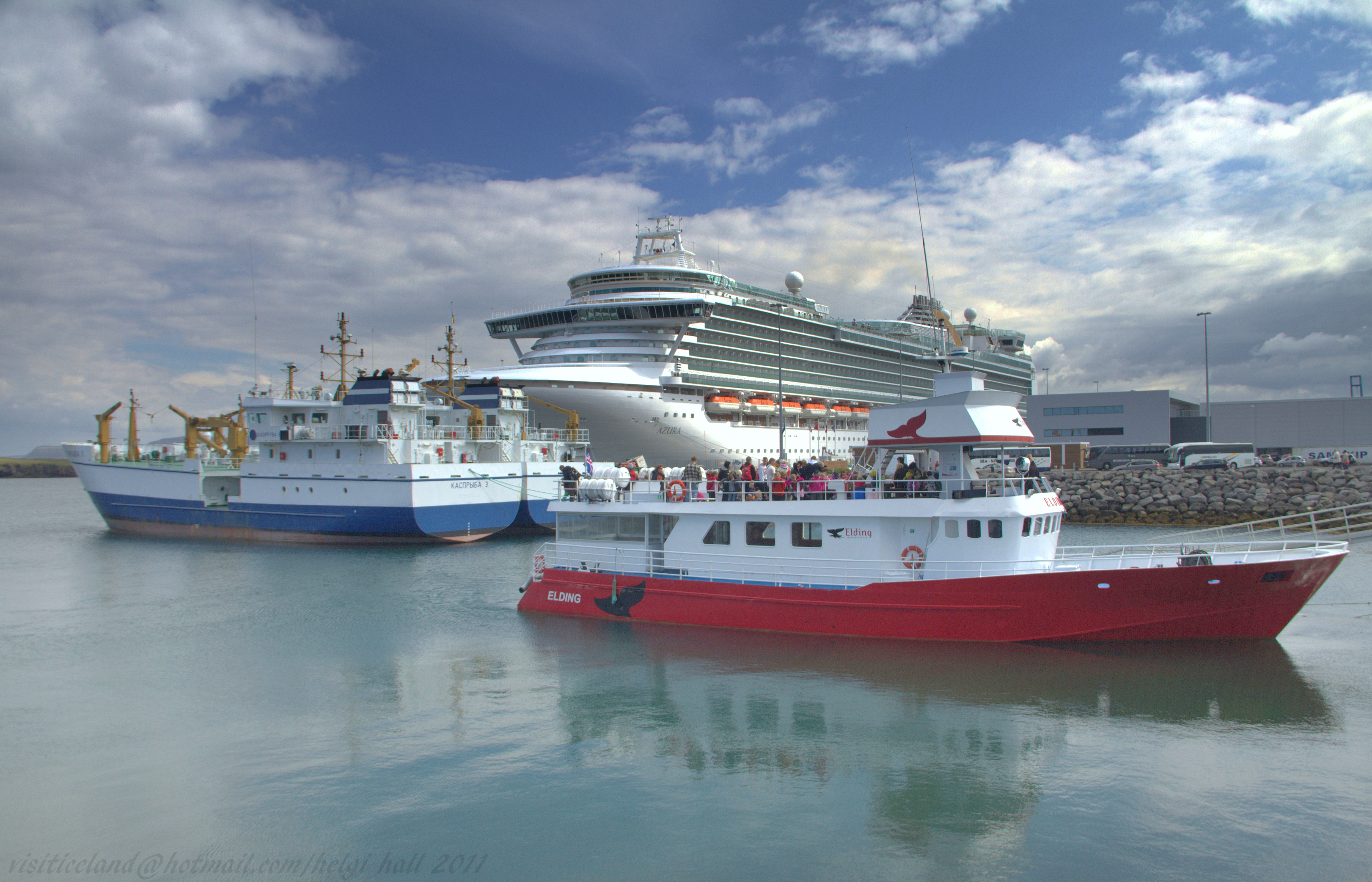 Elding Whale Watching